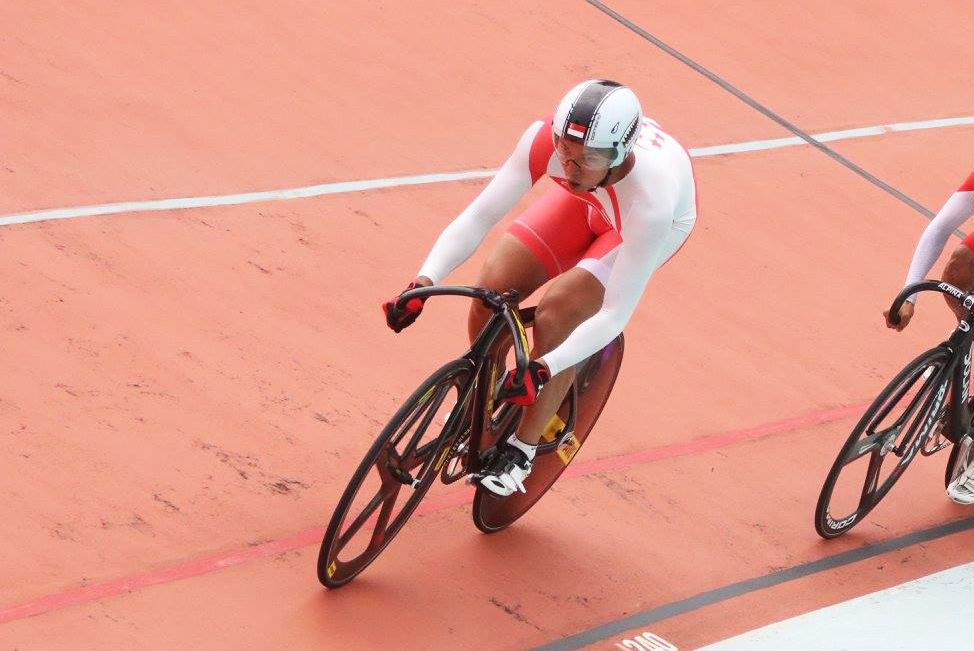 Singaporean track cyclist Lance Tan Wei Sheng competing for Singapore in the team sprint event at the Asian Cycling Confederation (ACC) Track Asia Cup 2016.